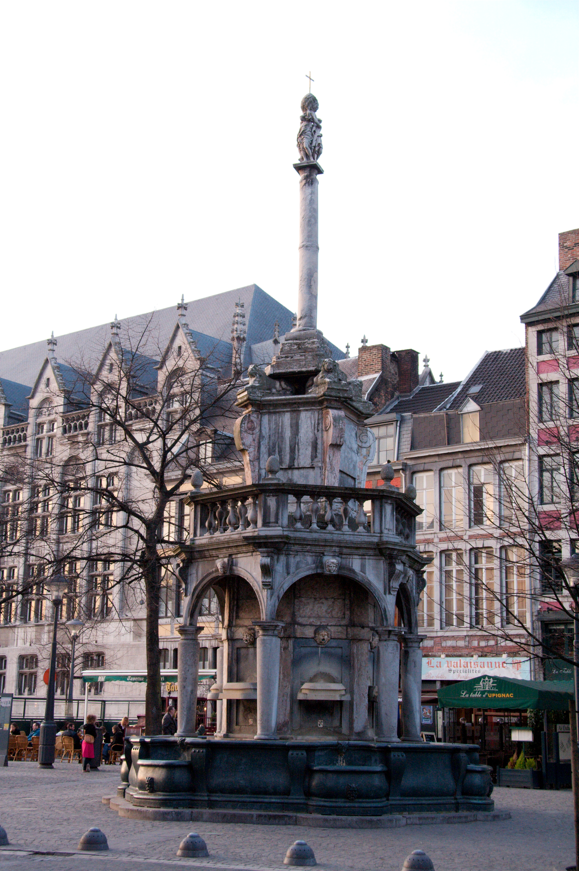 The perron and its fountain, by sculptor Jean Del Cour in Liège (Belgium).